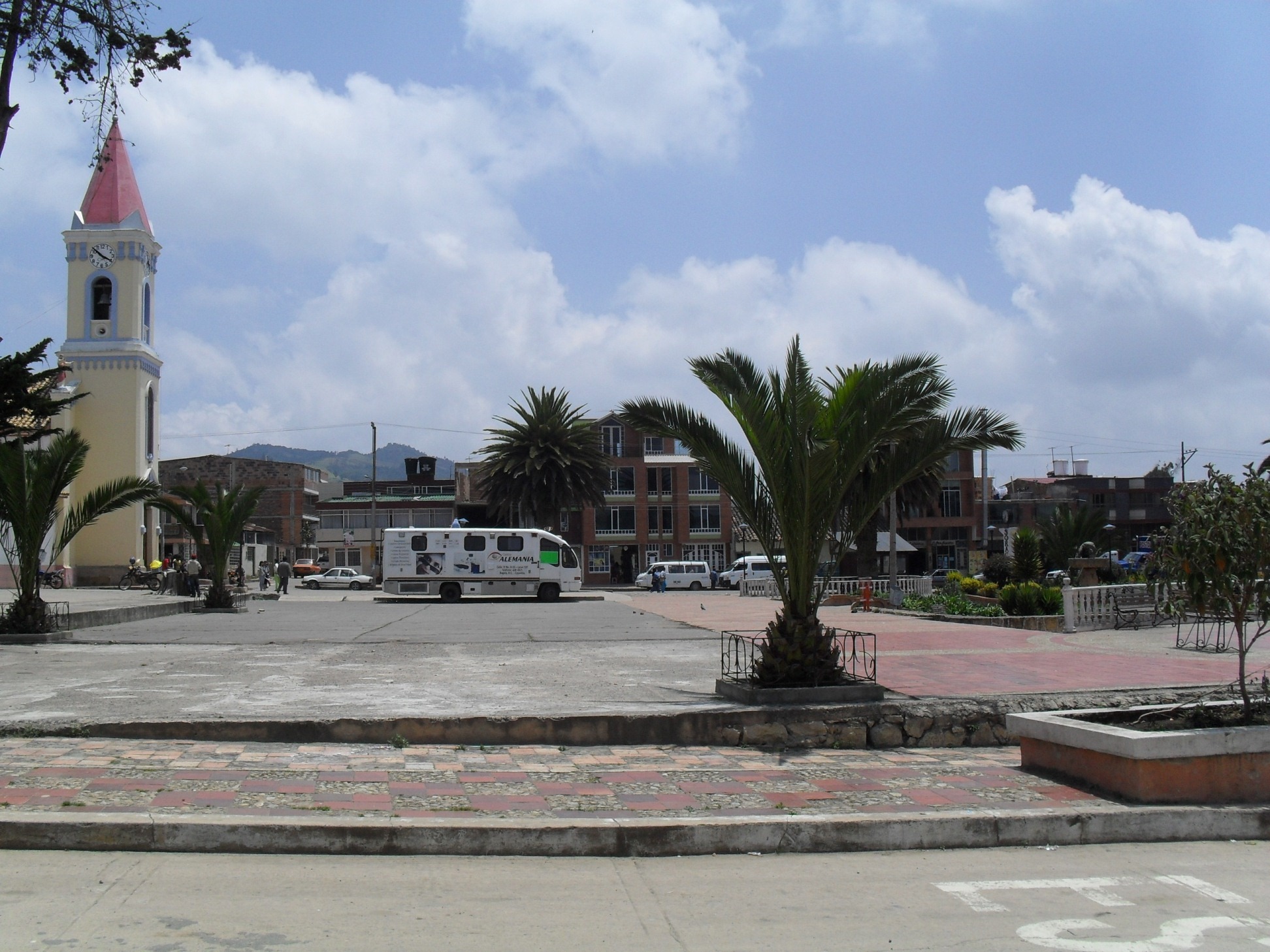 Main Park, Municipality of Soracá, Boyacá, Colombia